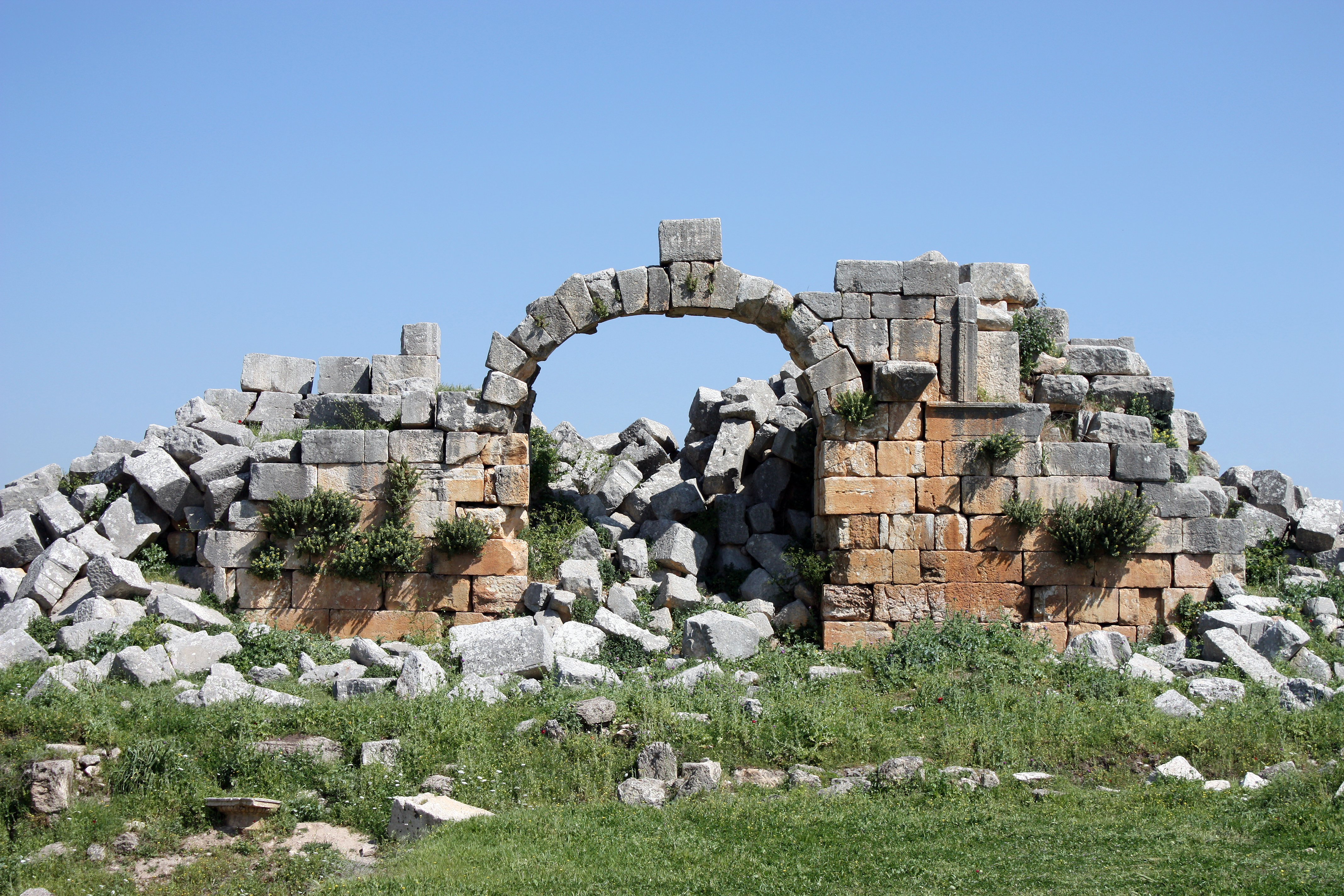 Antiochus gate, in the Roman city of Apamea.